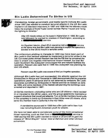 Excerpts from a CIA memo dated August 2001 concerning a possible attack by Bin Laden on the United States of America.